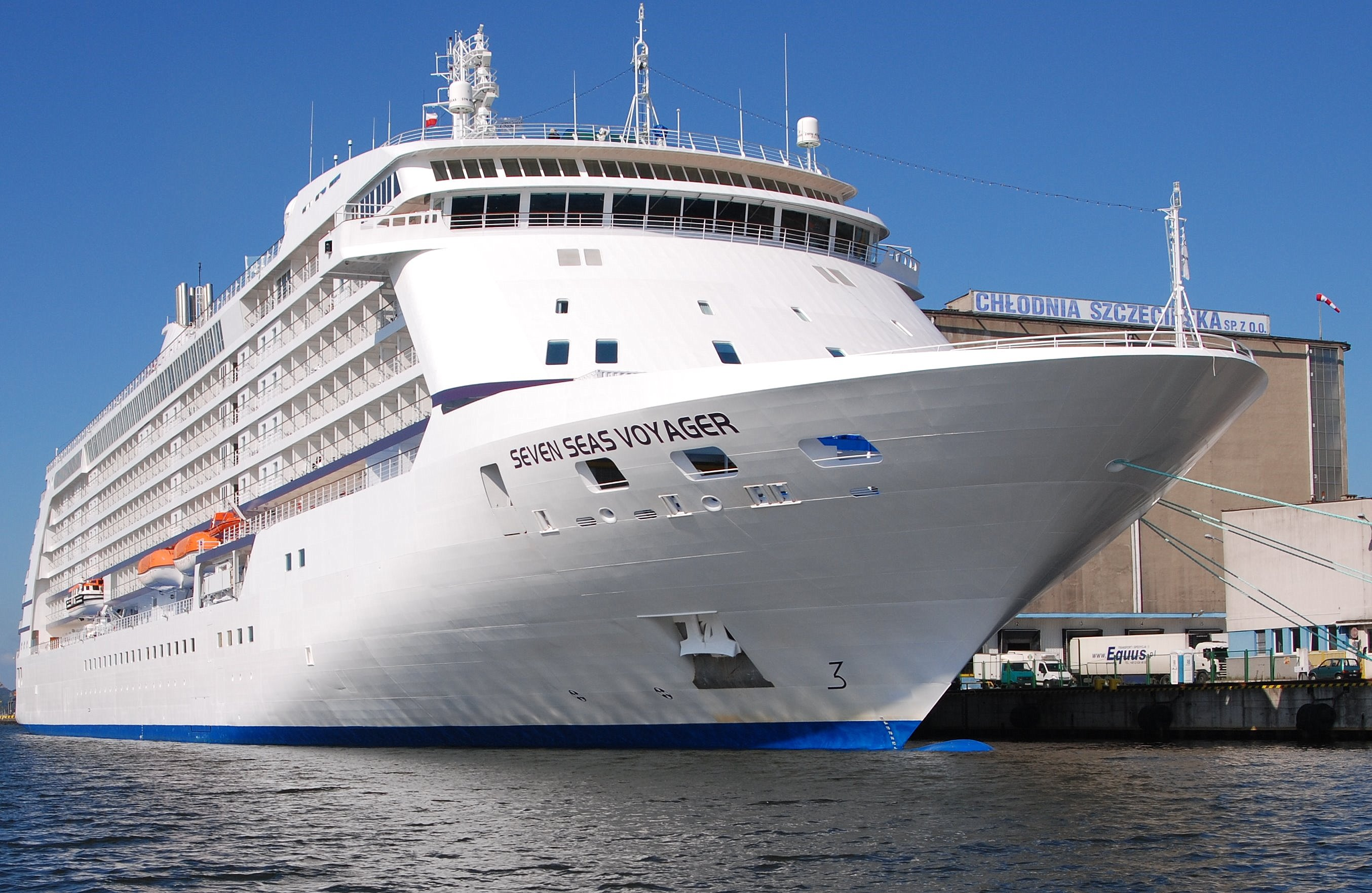 MS Seven Seas Voyager